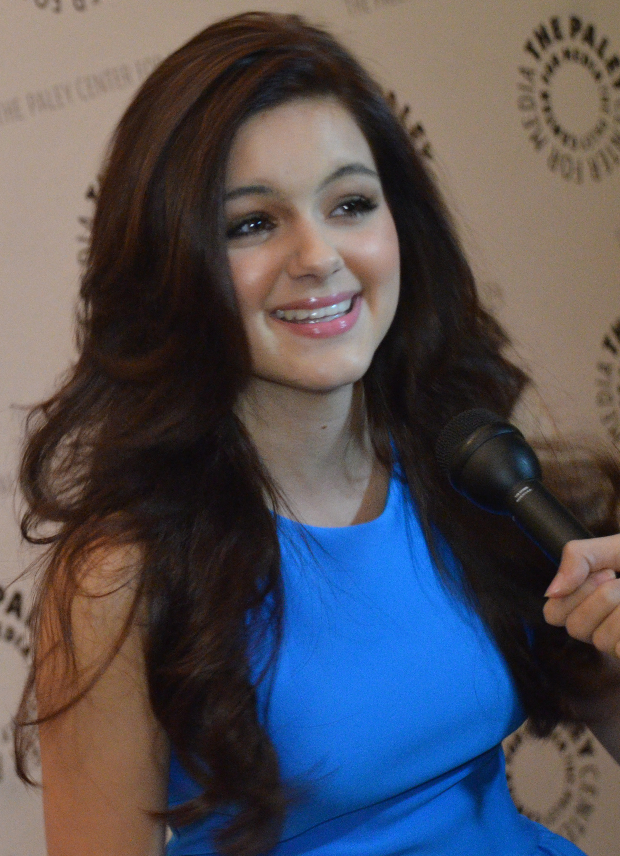 Ariel Winter at the The Paley Center and Warner Home Video Present Premiere of Batman: The Dark Knight Returns, Part 1 in September 2012.